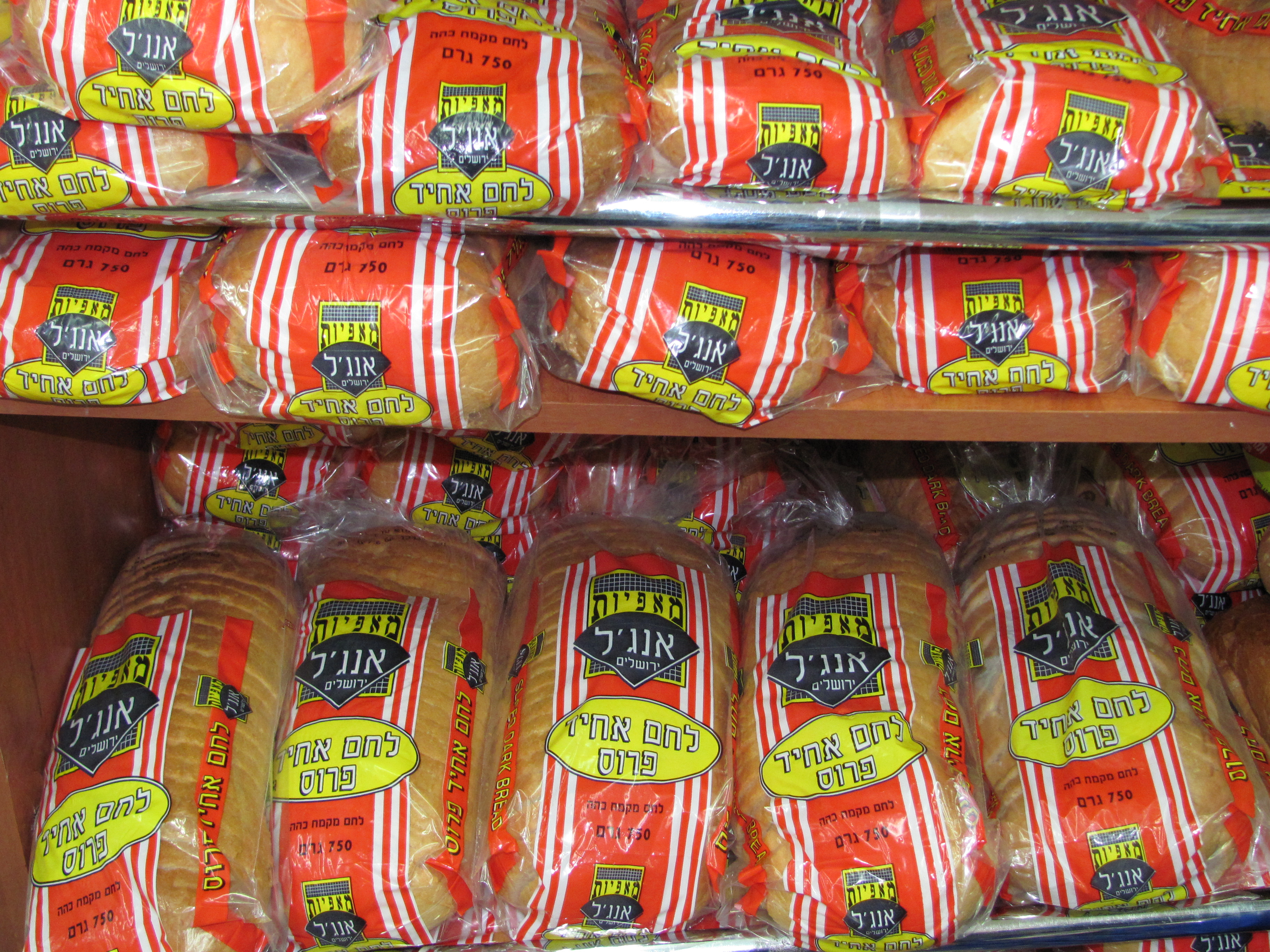 Packages of Angel Bakeries "Lechem Achid" (price-controlled bread) for sale in a Jerusalem store.